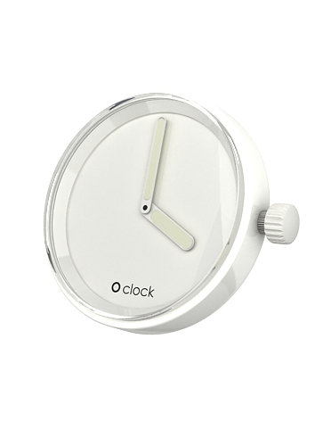 O clock Classic white face used in Fullspot Tone on Tone range and Classic range.